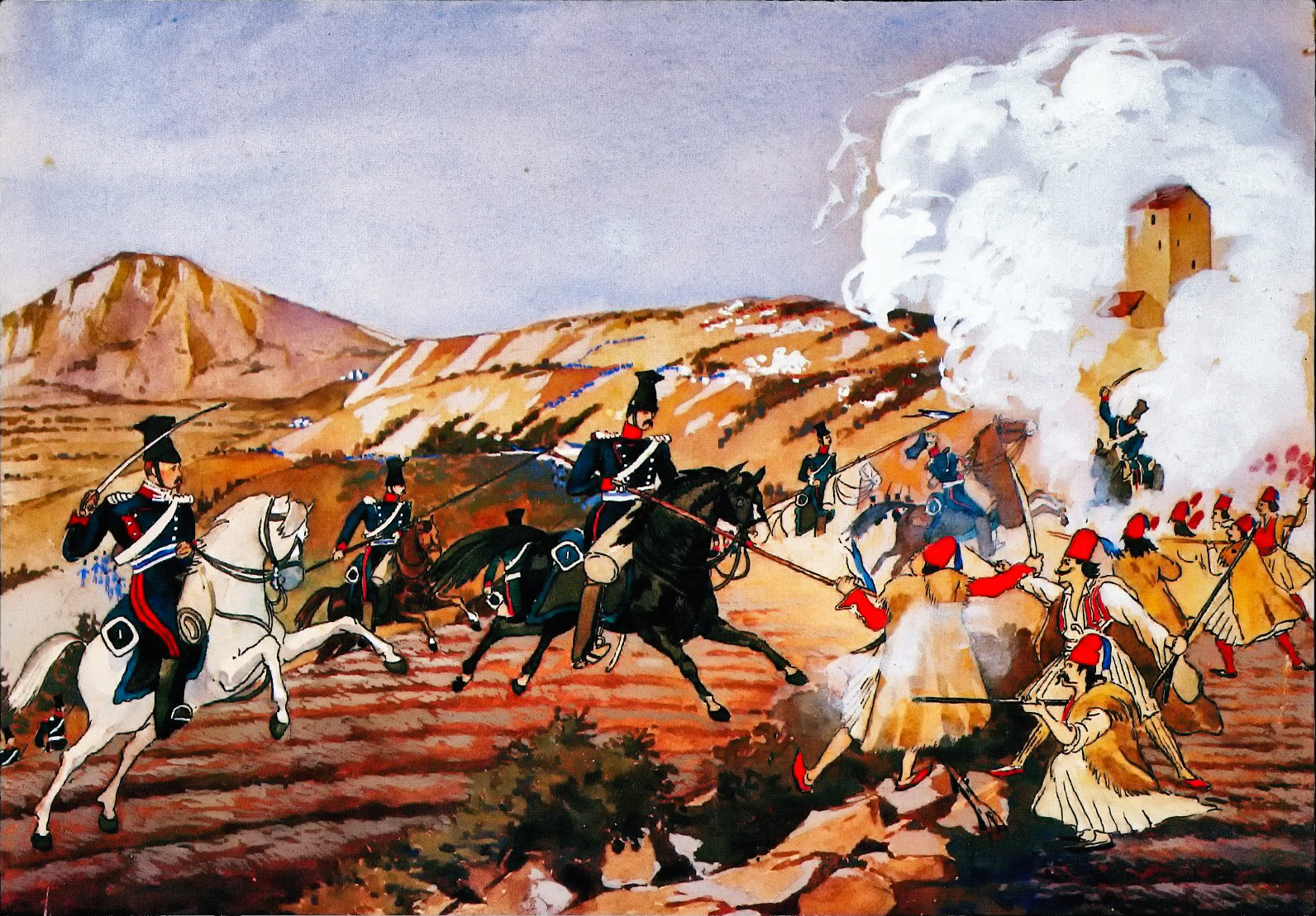 Bavarian lancers charge Greek rebels